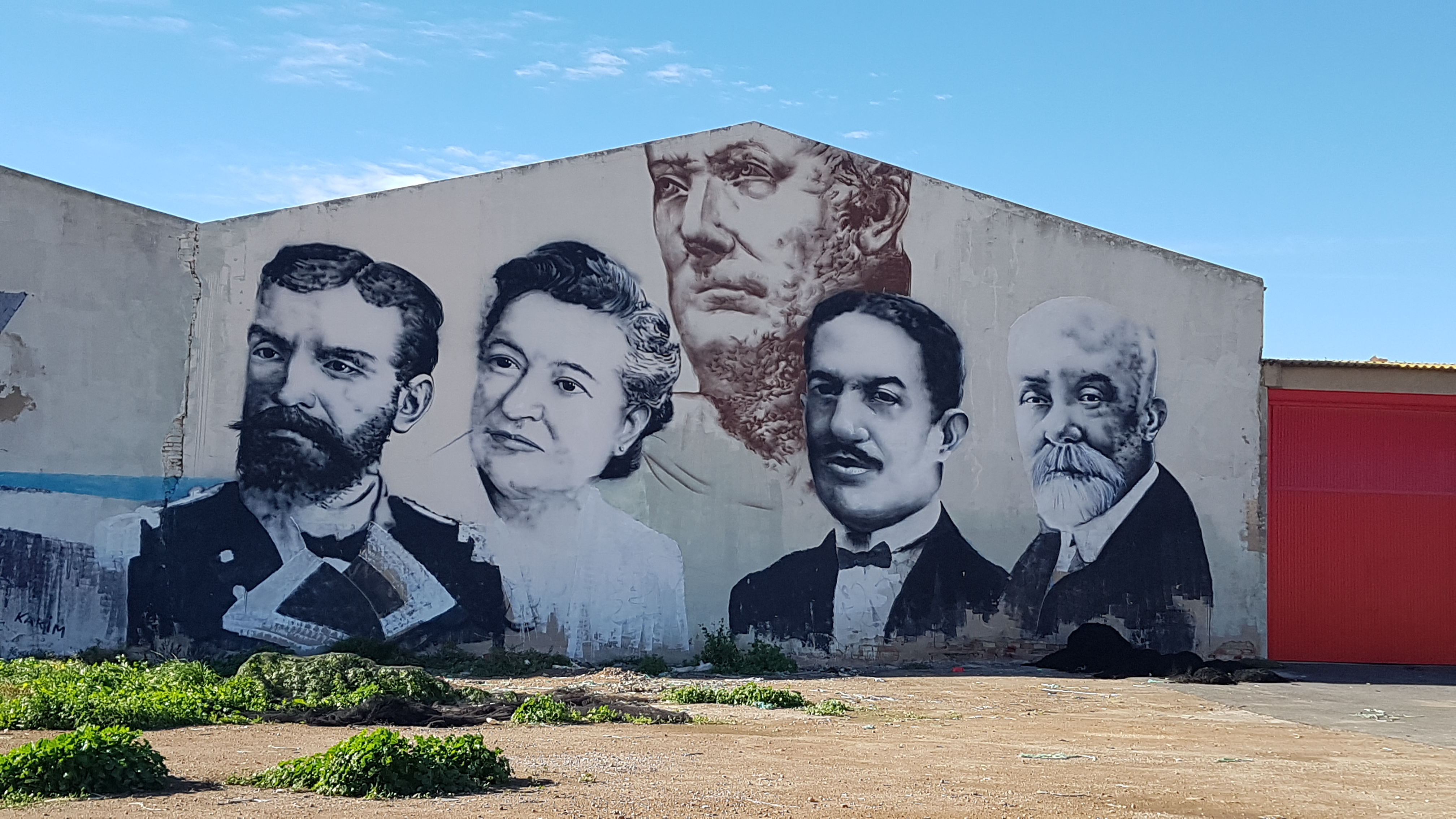 Graffiti in the deputation of Santa Lucía (Cartagena, Spain), which includes some notorious people from the city or relevant in its history: the military engineer and inventor of the electric-powered submarine Isaac Peral; the writer, poetess and first woman to become an academic numerary of the Royal Spanish Academy Carmen Conde Abellán; in the background, the Carthaginian general Hannibal; Mayor Alfonso Torres López; and the physician and revolutionary Manuel Cárceles Sabater.